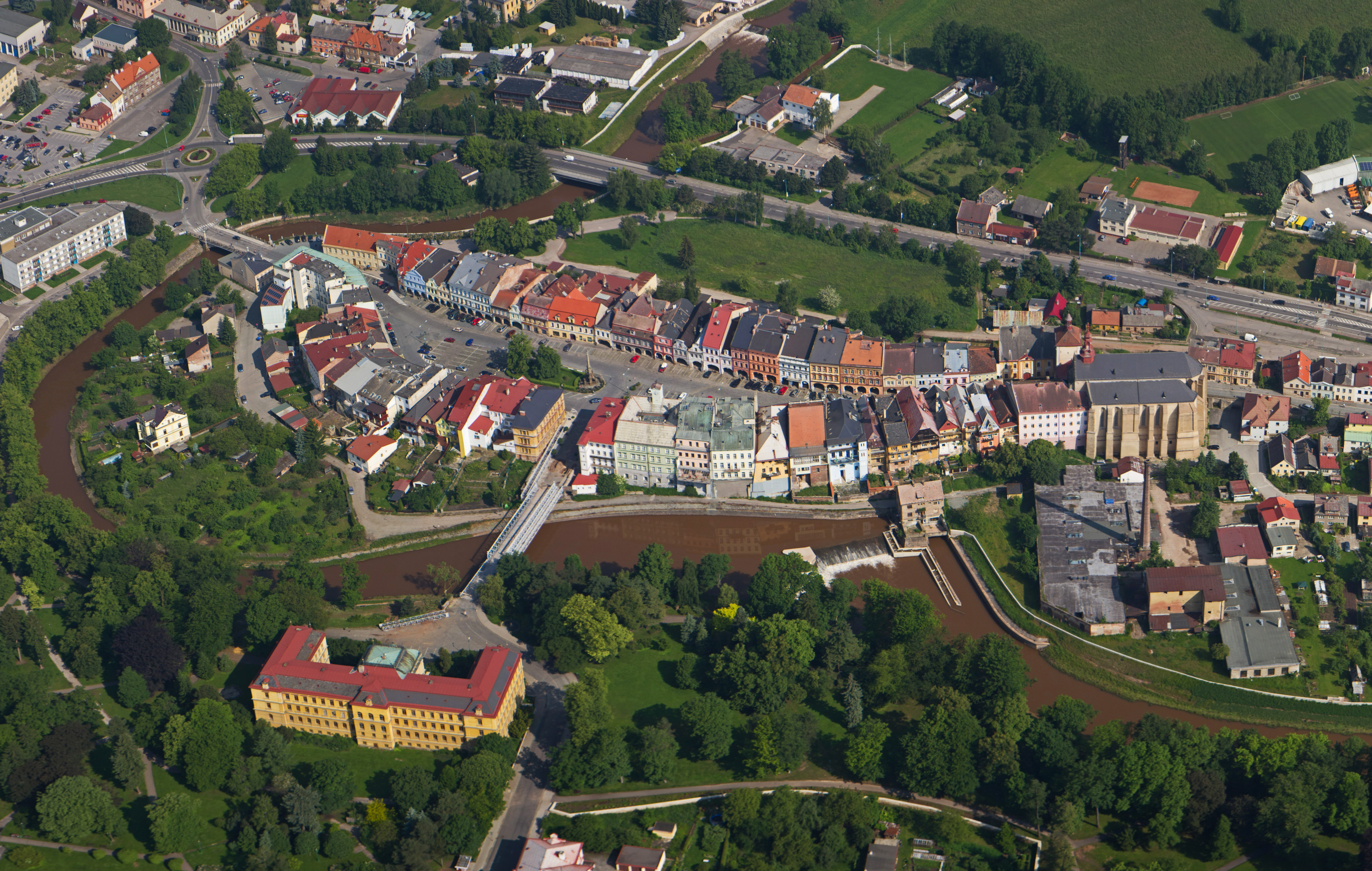 Jaromer